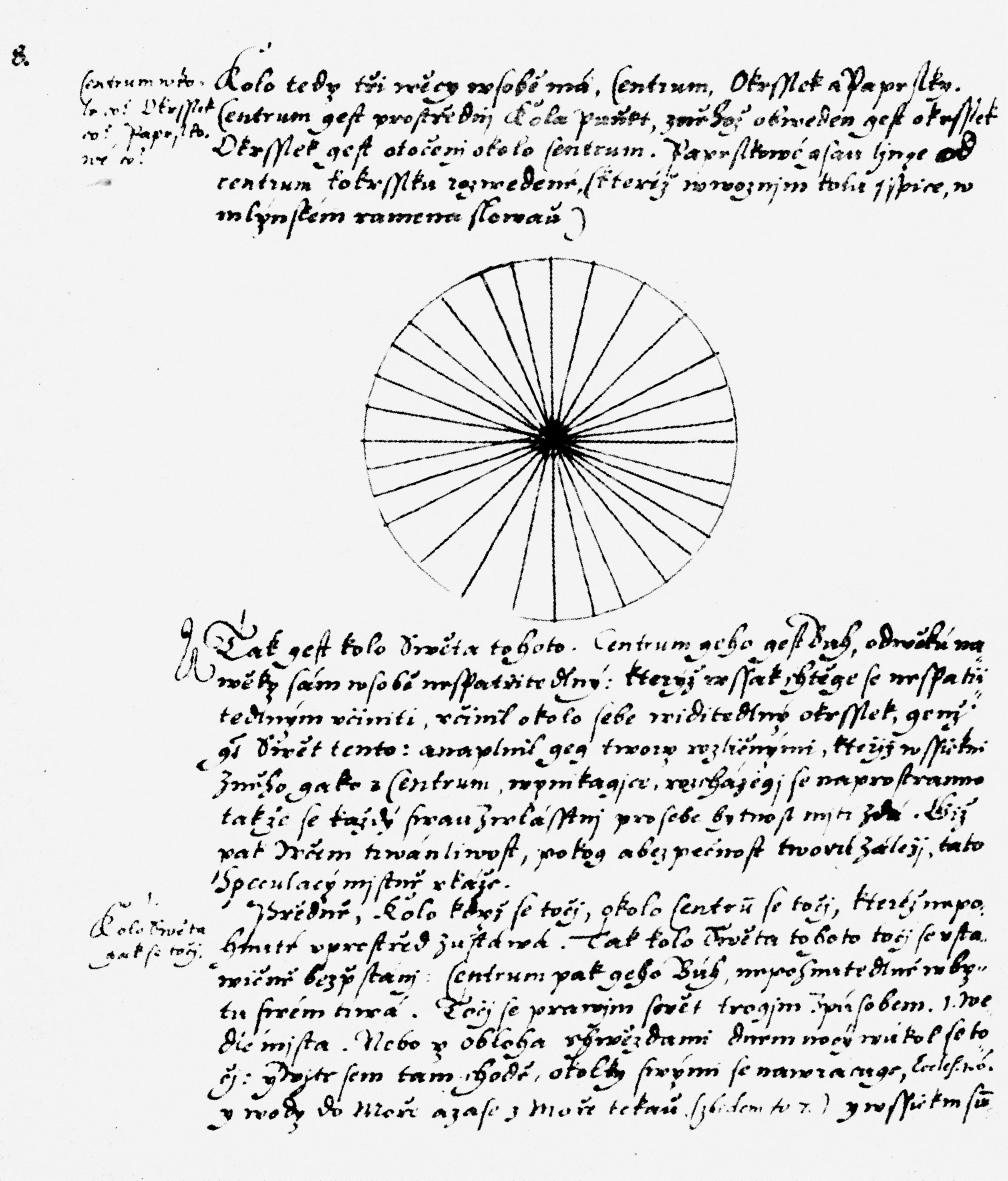 John Amos Comenius: Centrum securitatis, edition 1663, Amsterdam. The world as a wheel.